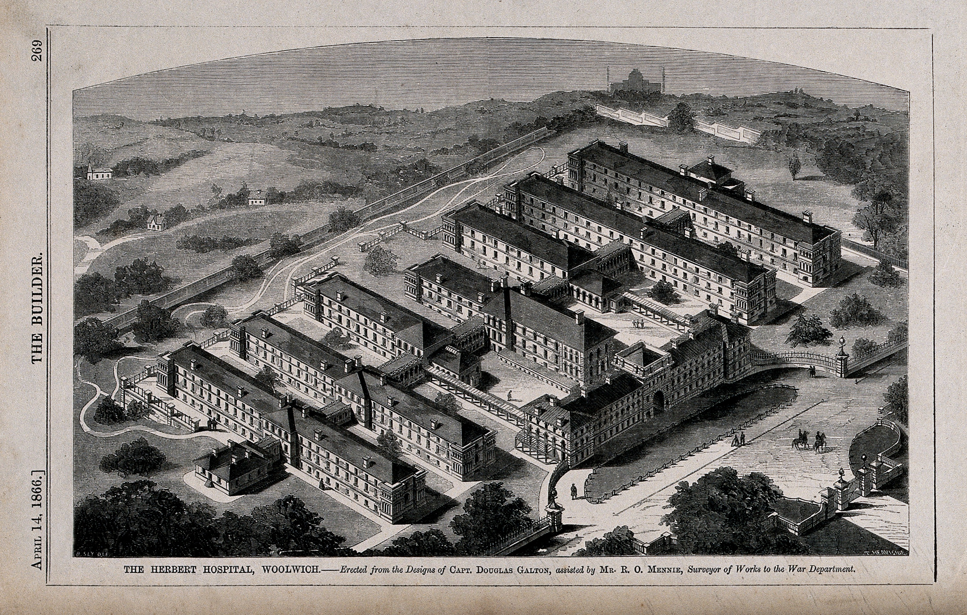 The Herbert Military Hospital, Woolwich: the silhouette of the Crystal Palace visible on the horizon. Wood engraving by T. Heaviside after B. Sly, 1866. Iconographic Collections Keywords: Thomas Heaviside; Benjamin Sly; Douglas Galton; R.O. Mennie